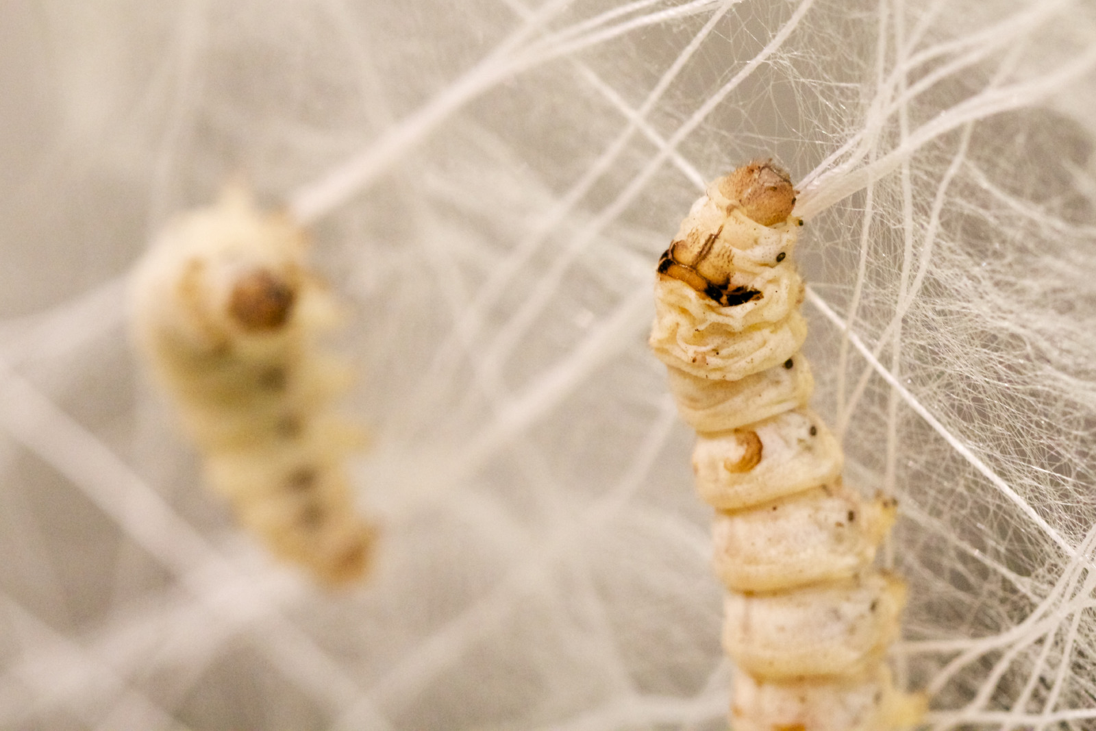 Silkworms crawling on the Silk Pavilion installation. See also File:Silkworm_spinning_a_flat_surface.tif